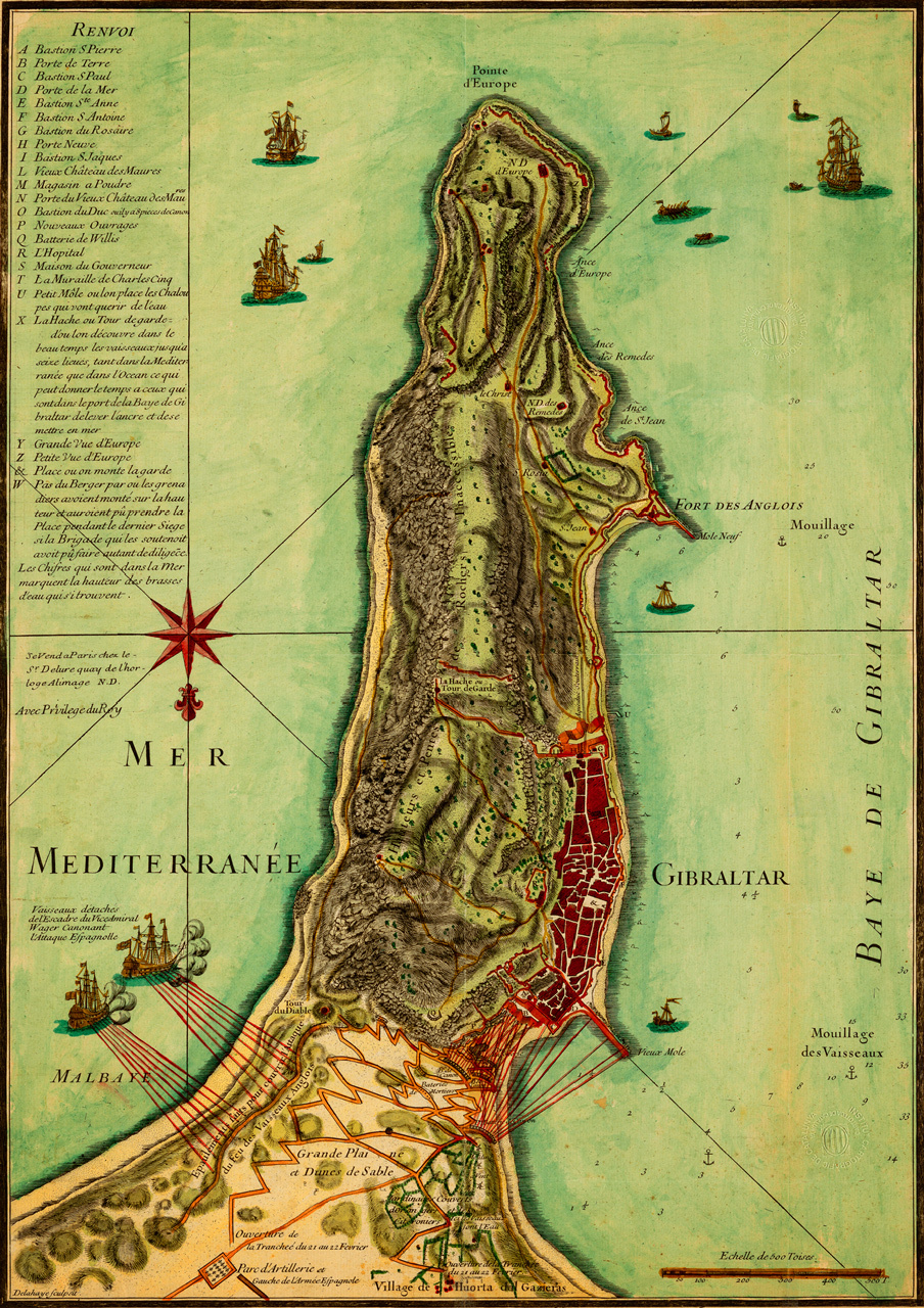 Spanish during the Anglo-Spanish War of 1727–1729, (also known as the Thirteenth Siege of Gibraltar). The plan shows British naval bombardments on each side of the the peninsula, aimed at Spanish land positions. It also contains a map key (“Renvoi”) with detailed descriptions of all locations and depth soundings of the bay. The map, oriented with south at the top, was created by Jean-Baptiste Delahaye.